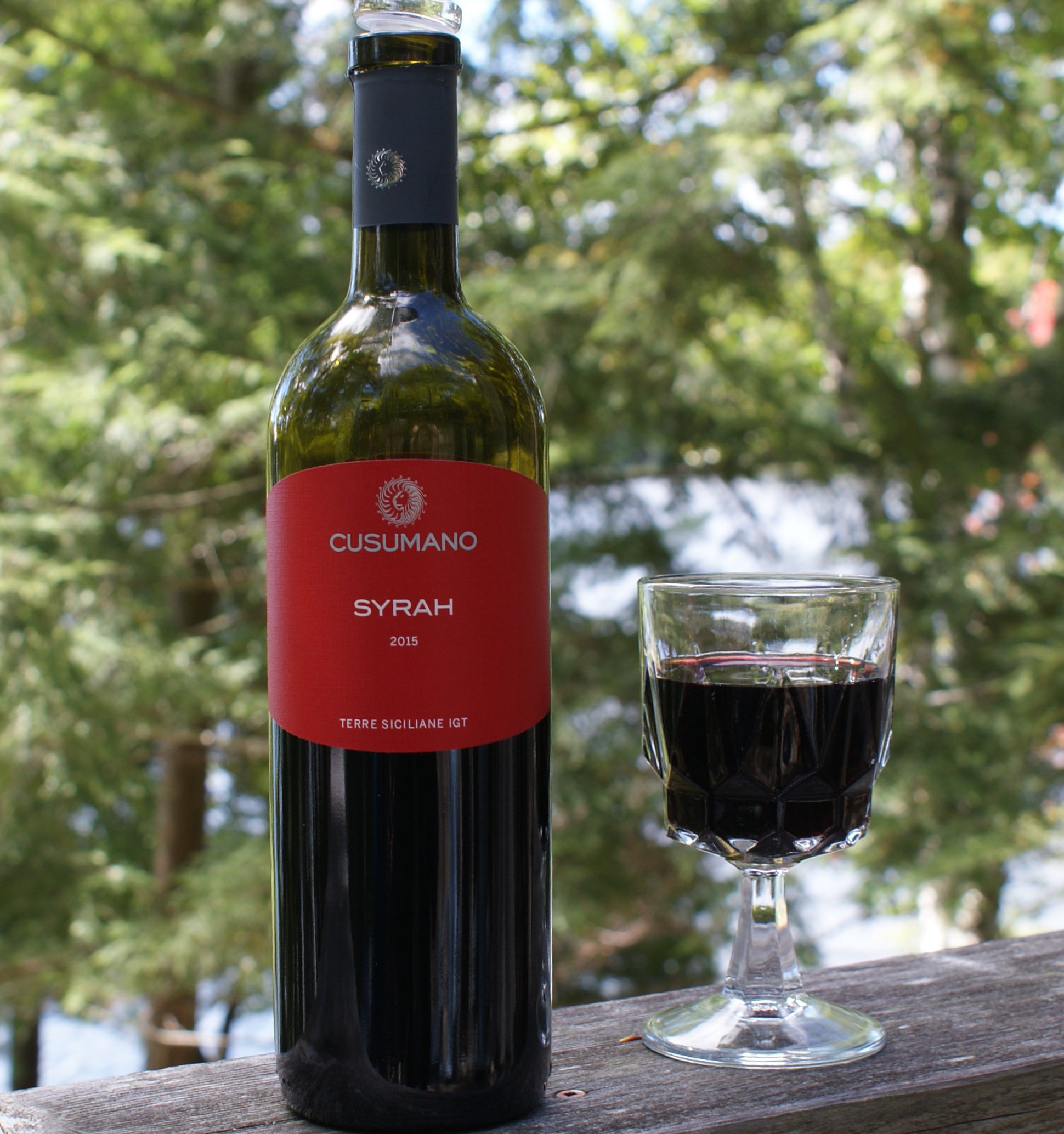 Bottle of red Cusumano wine in country scene with glass